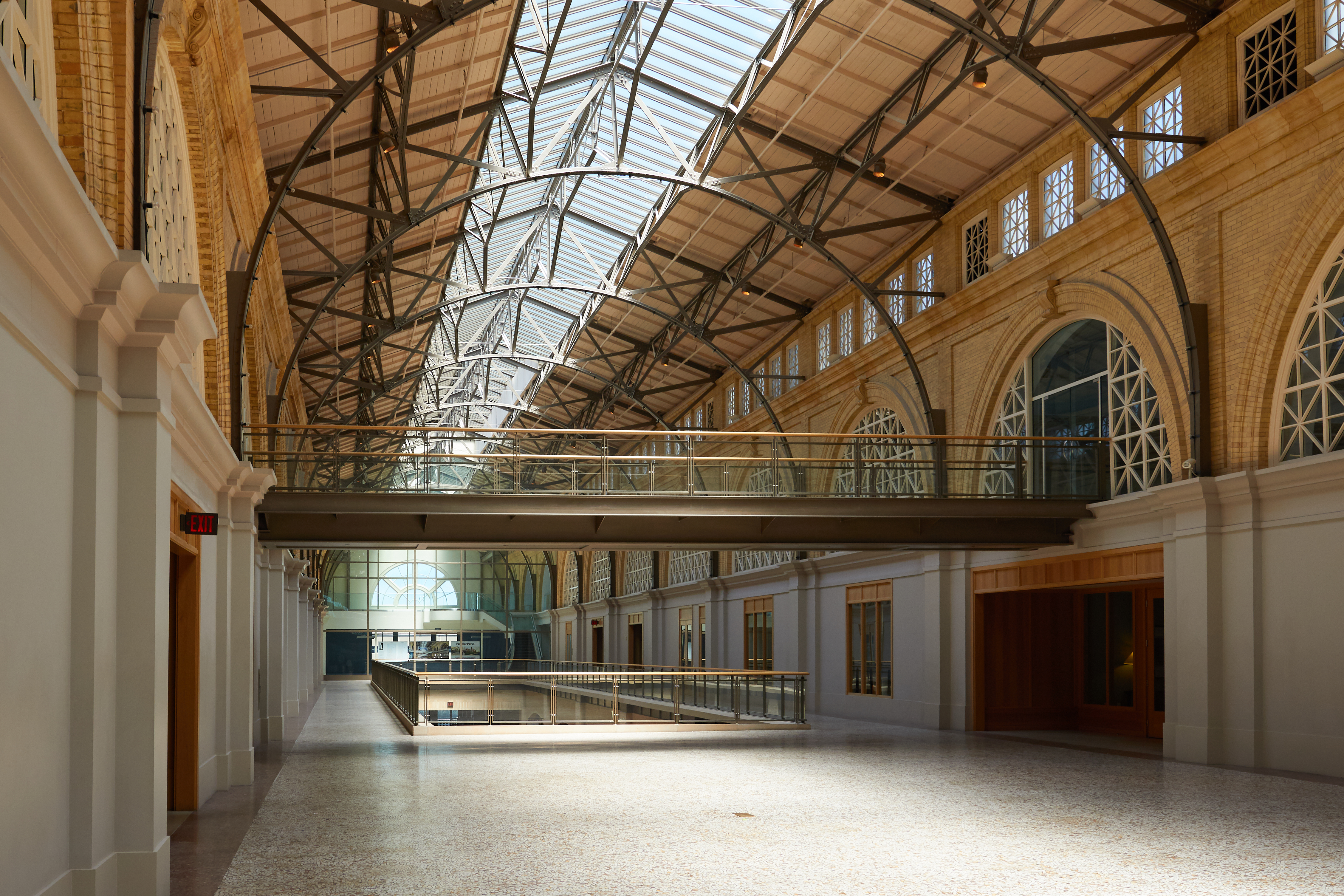 The second floor of the Ferry Building in San Francisco. Originally constructed by A. Page Brown, the 660-foot building was completed in 1898. After undergoing restoration, it was reopened in 2003.